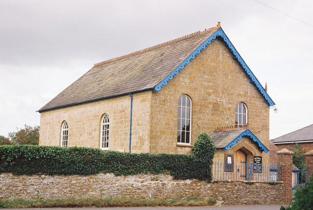 Netherhay: Methodist Church